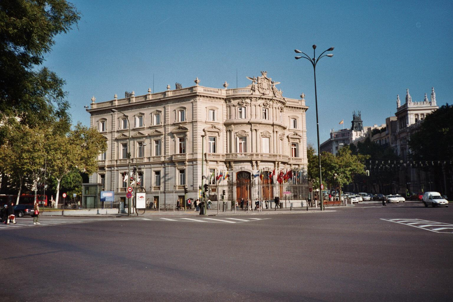 Description: View of the Palacio de Linares on the Plaza de Cibeles in Madrid. Source: self-made, I release it into the public domain.